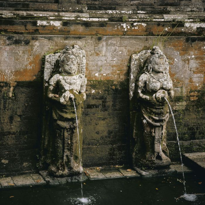 Gutters of the bathing place at the Pura Goa Gajah or Elephant Cave